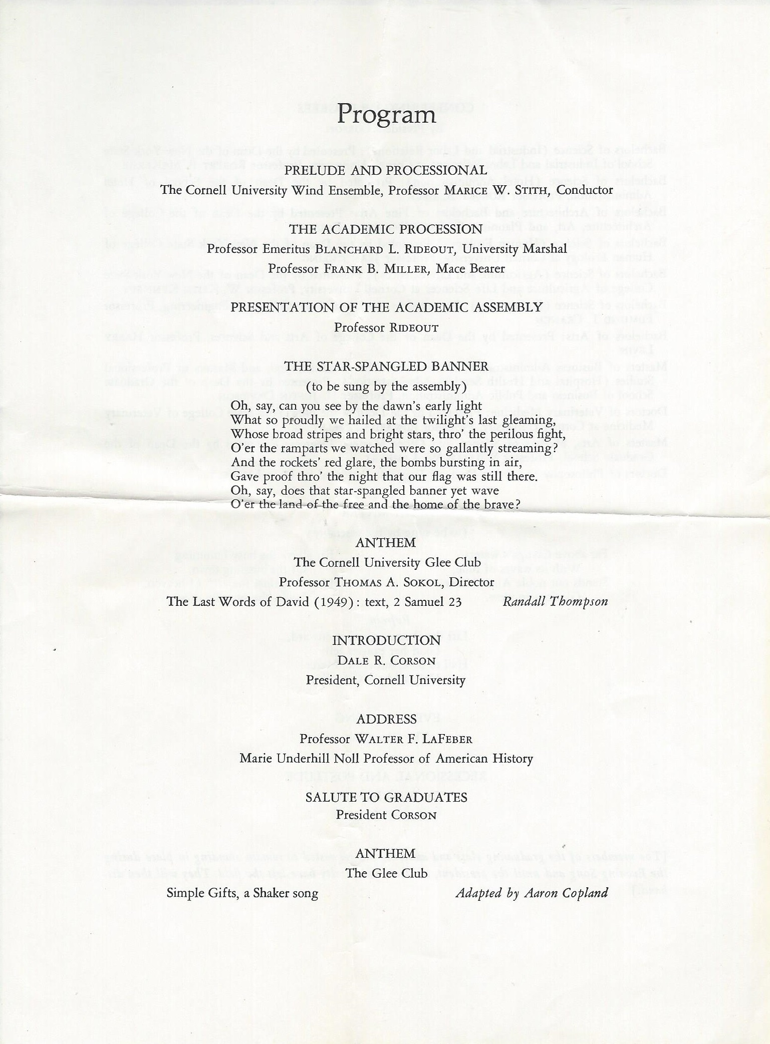 The front side of the single-sheet program for Cornell University's commencement ceremony of May 28, 1976.